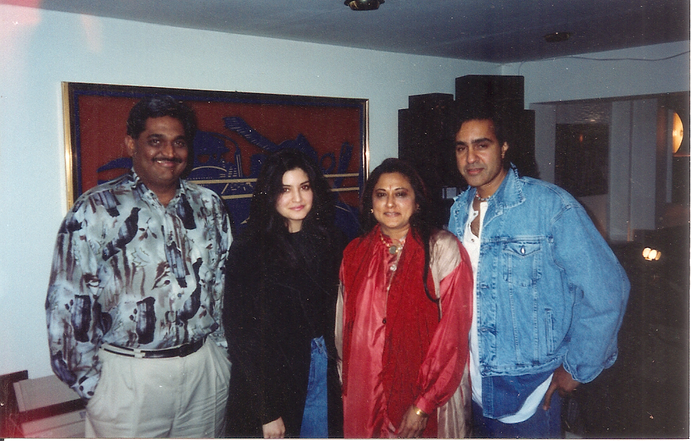 Shashi and Kalpana Gopal with Nazia Hasan and Biddu.